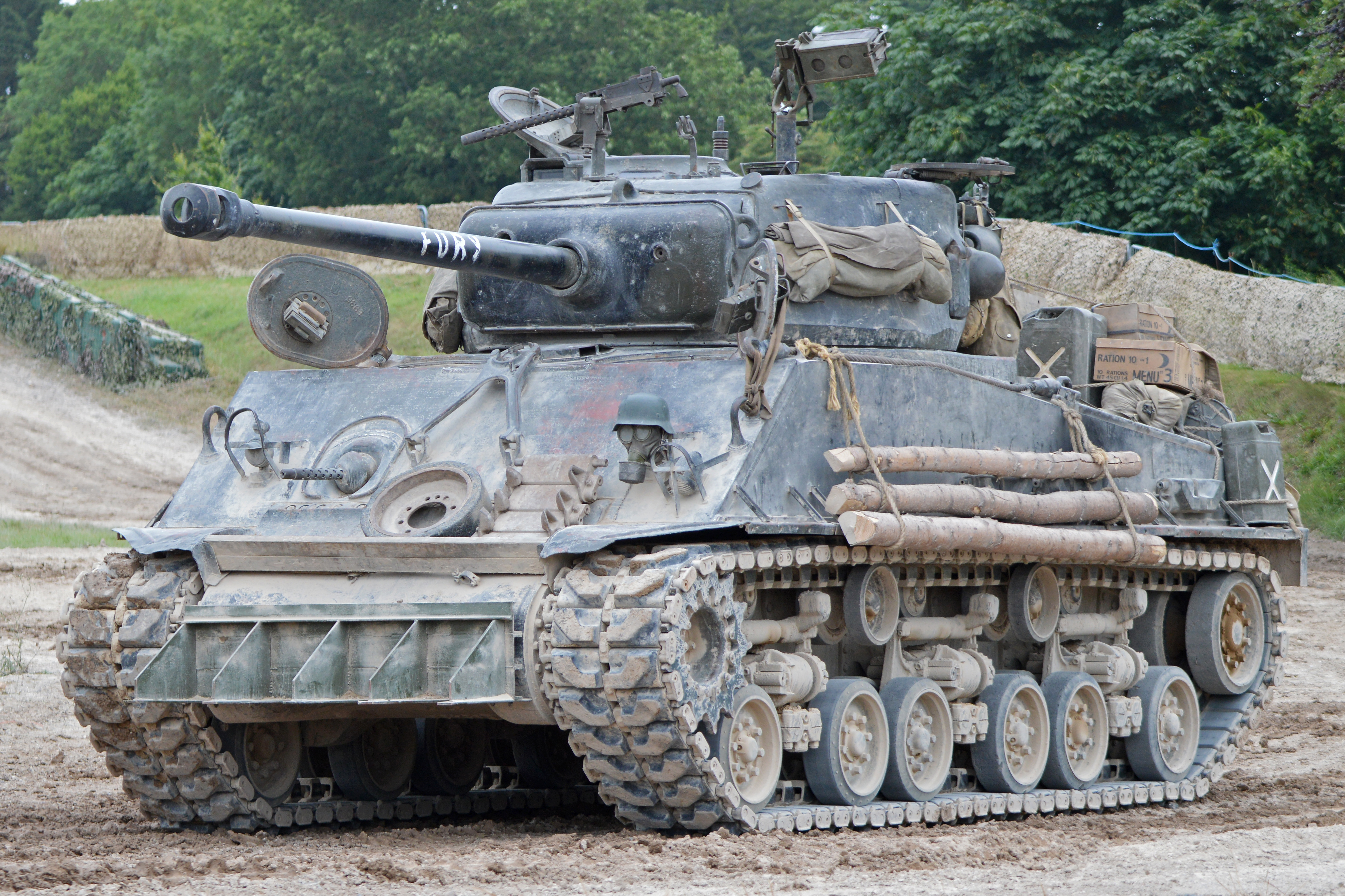 Official US designation:- M4A2E8 / M4A2(76W) HVSS. British designation:- Sherman IIIAY. Built by General Motors (Fisher) in Michigan USA, with the serial No 65016. British registration T224875. This is a late war example with HVSS (Horizontal Volute Spring Suspension) and was previously displayed in genuine British markings as ‘T224875’ “HARRY” / “RON”. Fully operational, she was chosen to star in the movie “Fury” and was mocked up in authentic US Army WW2 condition. Filming took place in late 2013 and also involved The Tank Museum’s operational Tiger I ‘131’. The film was released in 2014 and the Sherman has since been on display at The Tank Museum. She is seen in the Kuwait Arena at TankFest 2017. ‘The Tank Museum’, Bovington Camp, Dorset, UK. 24th June 2017